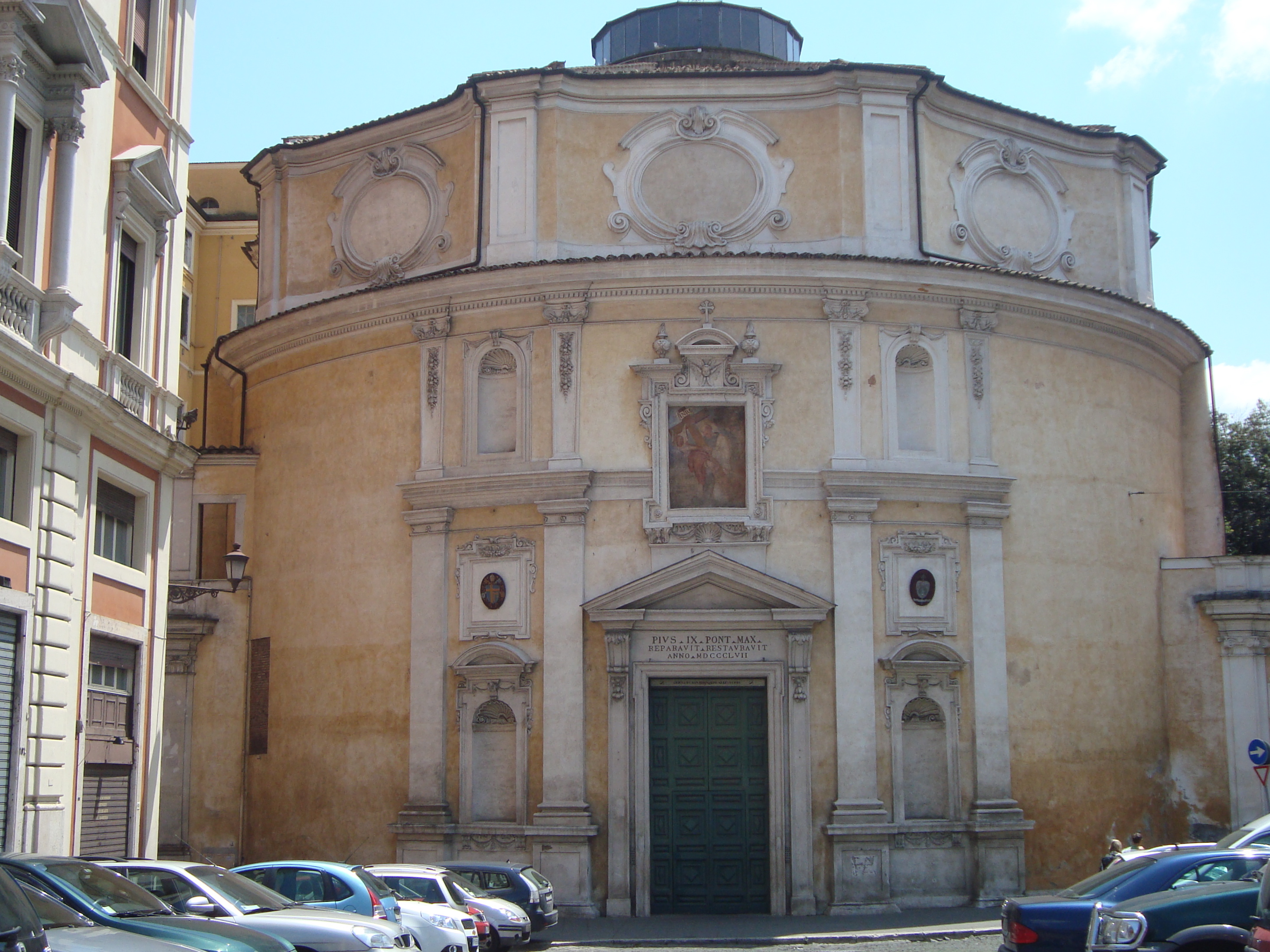 General view of the church San Bernardo alle Terme in Rome